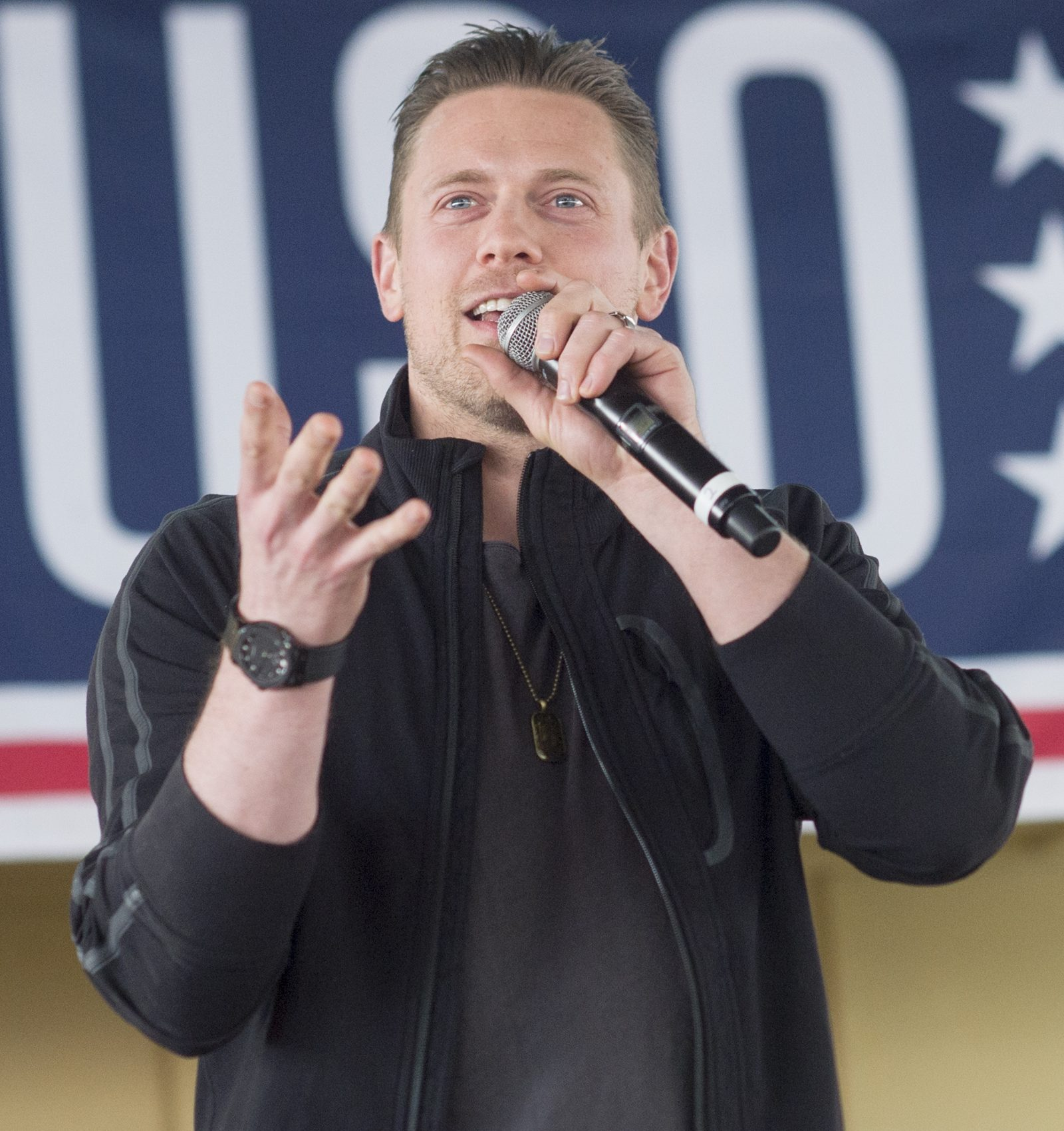 WWE Superstars “The Miz” and Alicia Fox perform for service members during the USO Holiday Tour at Taji Military Complex, Dec. 25, 2017. Dunford and Troxell, along with USO entertainers, visited service members who are deployed during the holidays. This year’s entertainers are Chef Robert Irvine, wrestler Gail Kim, comedian Iliza Shlesinger, actor Adam Devine, country musician Jerrod Niemann, and WWE Superstars “The Miz” and Alicia Fox. (DoD photo by Navy Petty Officer 1st Class Dominique A. Pineiro/Released)